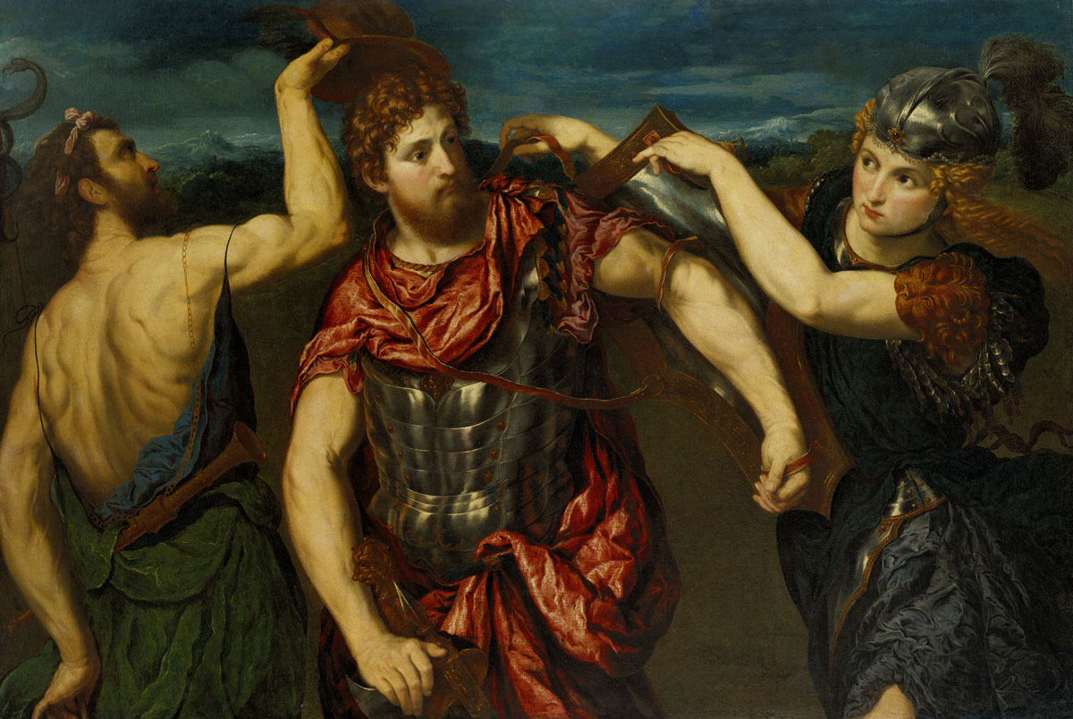 Oil on canvas of the god Mercury and goddess Minerva providing the warrior Perseus with armor to battle the Gorgon, Medusa.